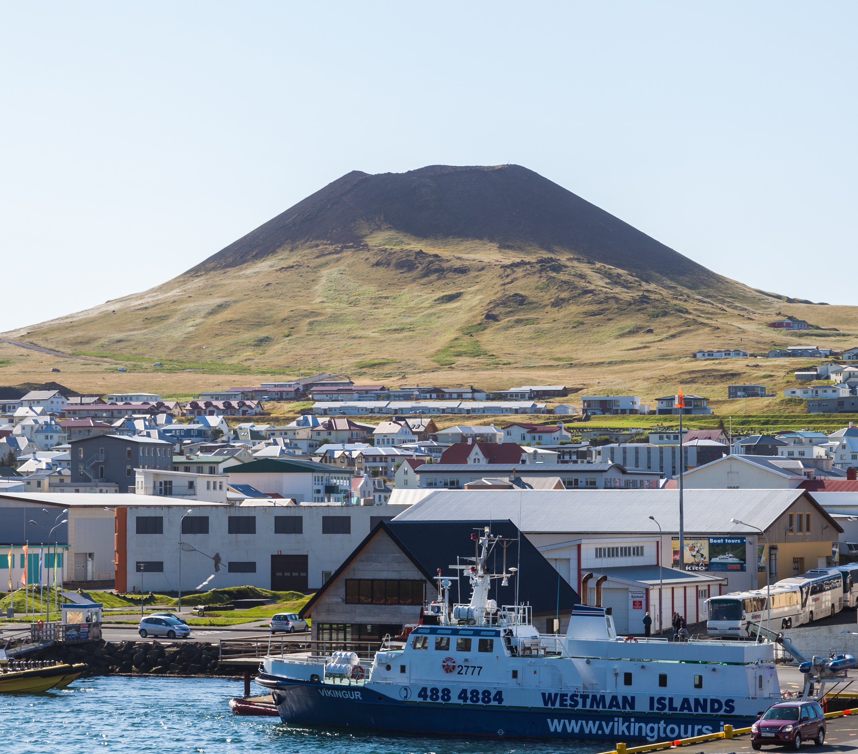 Helgafell, Heimaey, Westman Islands, Suðurland, Iceland